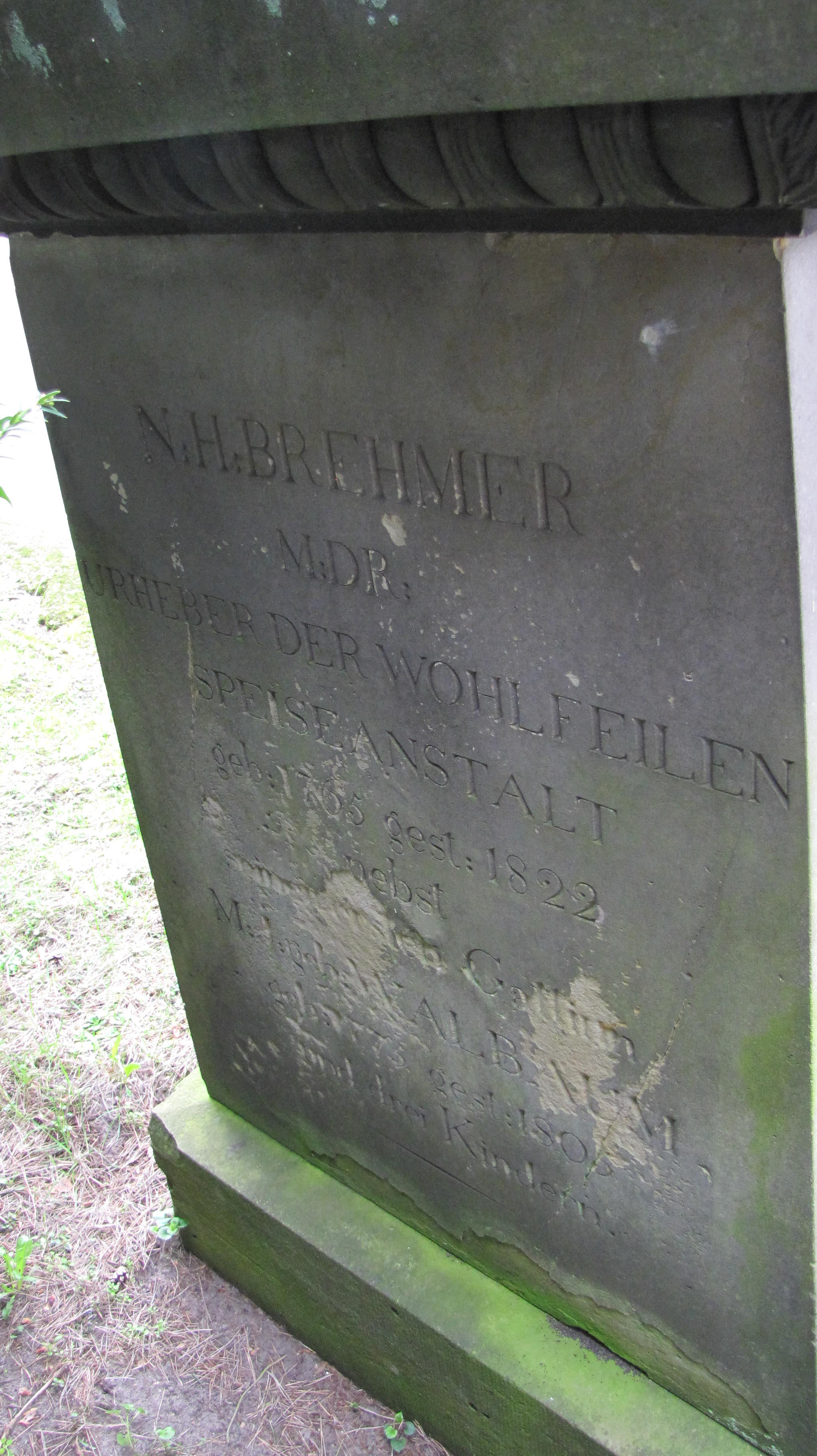 Vorwerker Friedhof Lübeck